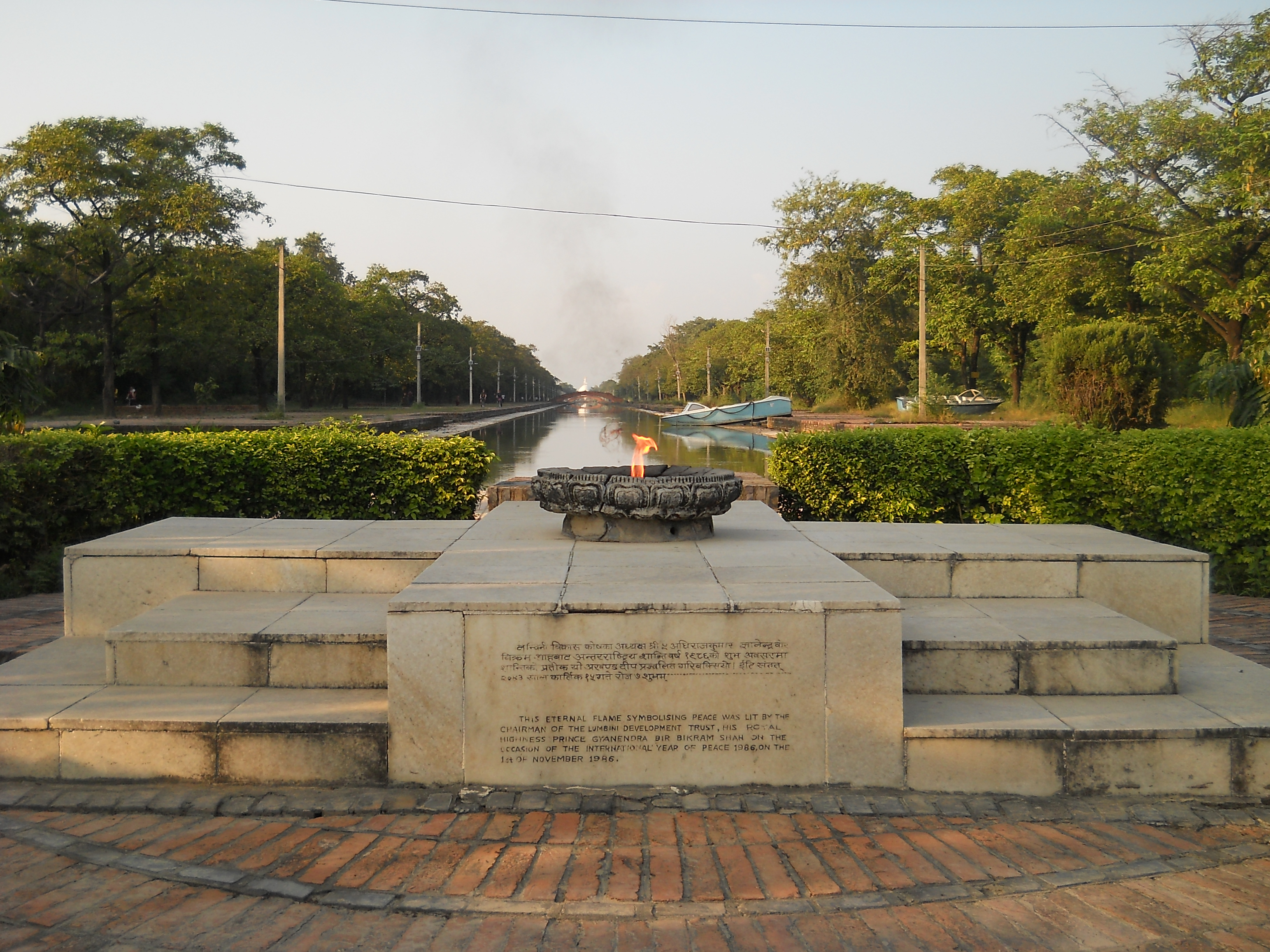 This Eternal Flame Symbolising Peace was lit by the Chairman of the Lumbini Development Trust, His Royal Highness Prince Gyanendra Bir Bikram Shah on the occasion of the INTERNATIONAL YEAR OF PEACE 1986, on the 1st of november 1986.